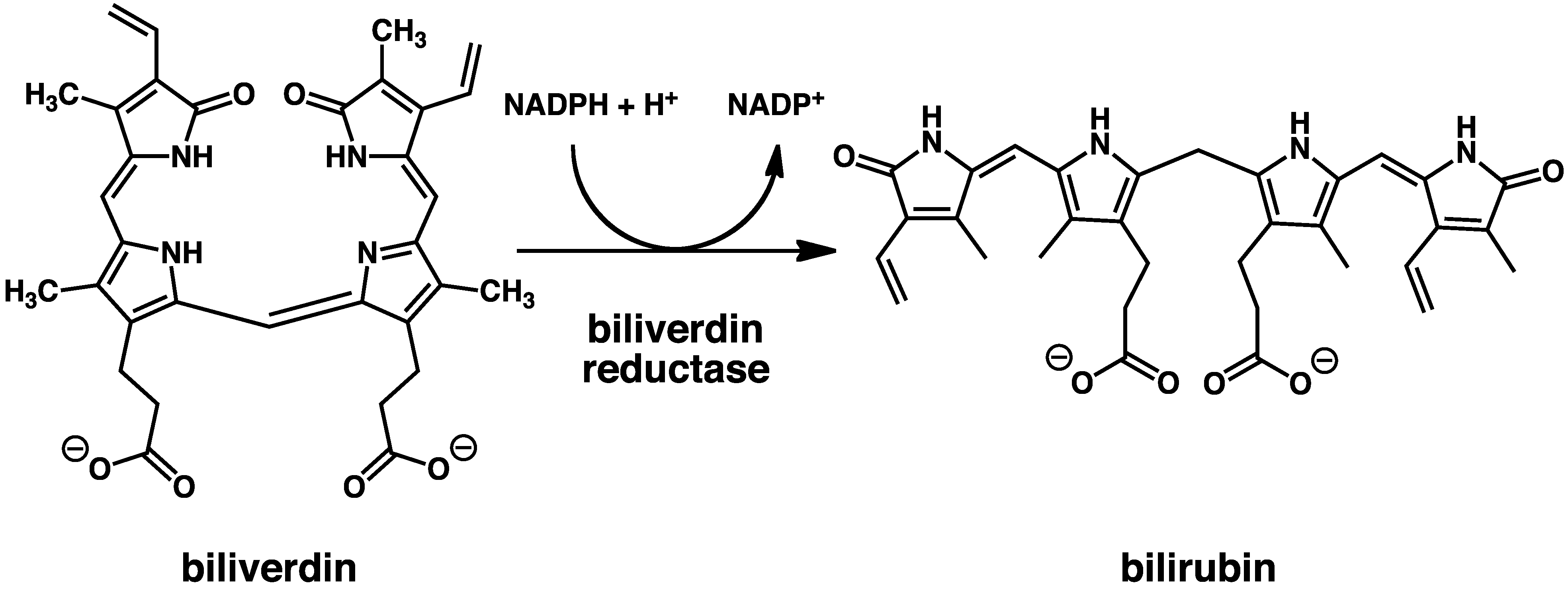 schematic of reaction catalyzed by biliverdin reductase